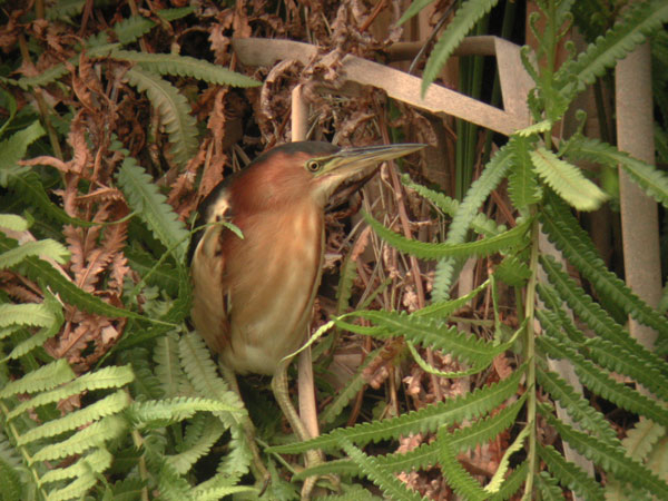 Australian Little Bittern (Ixobrychus dubius) Sherwood, SE Queensland, Australia